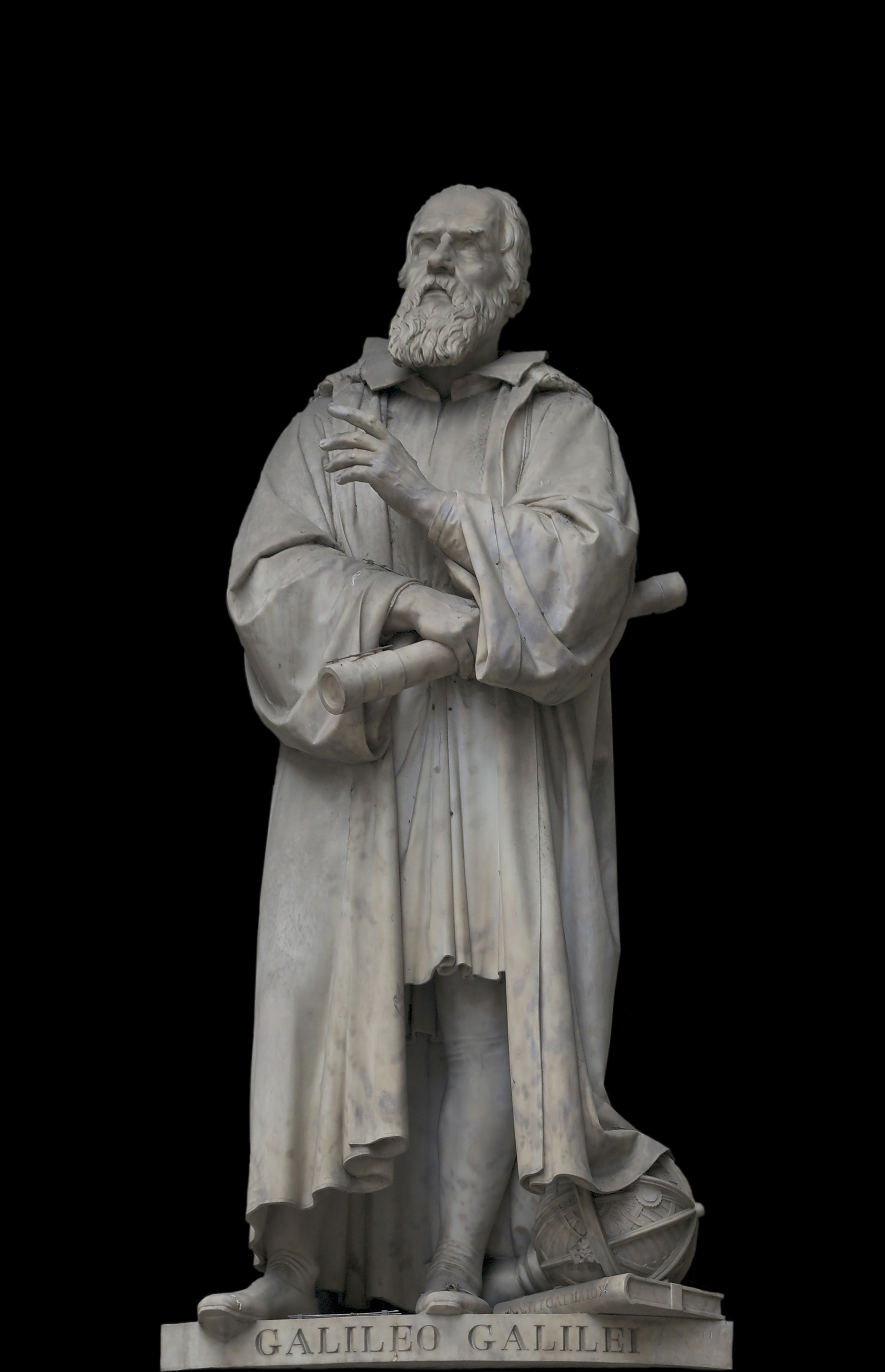 The statue to Galileo Galilei, by Aristodemo Costoli (1803-1871), outside of the Uffizi Gallery, Florence, Italy.